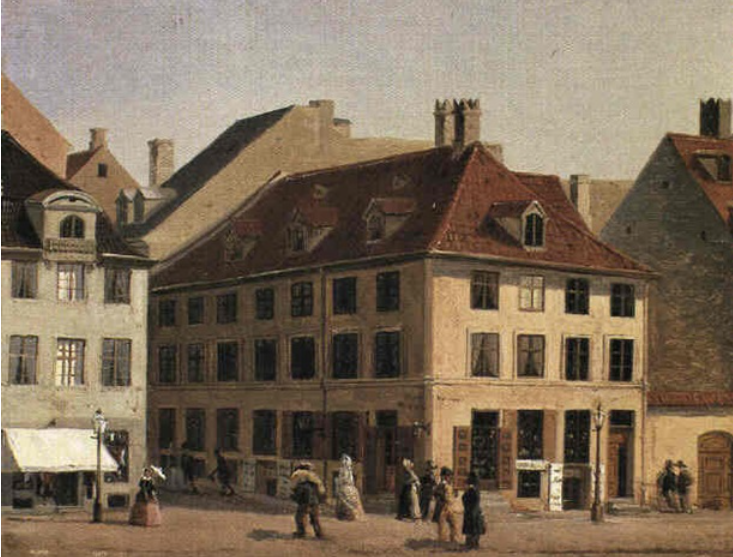 Nyhavn 1 in Copenhagen, Denmark